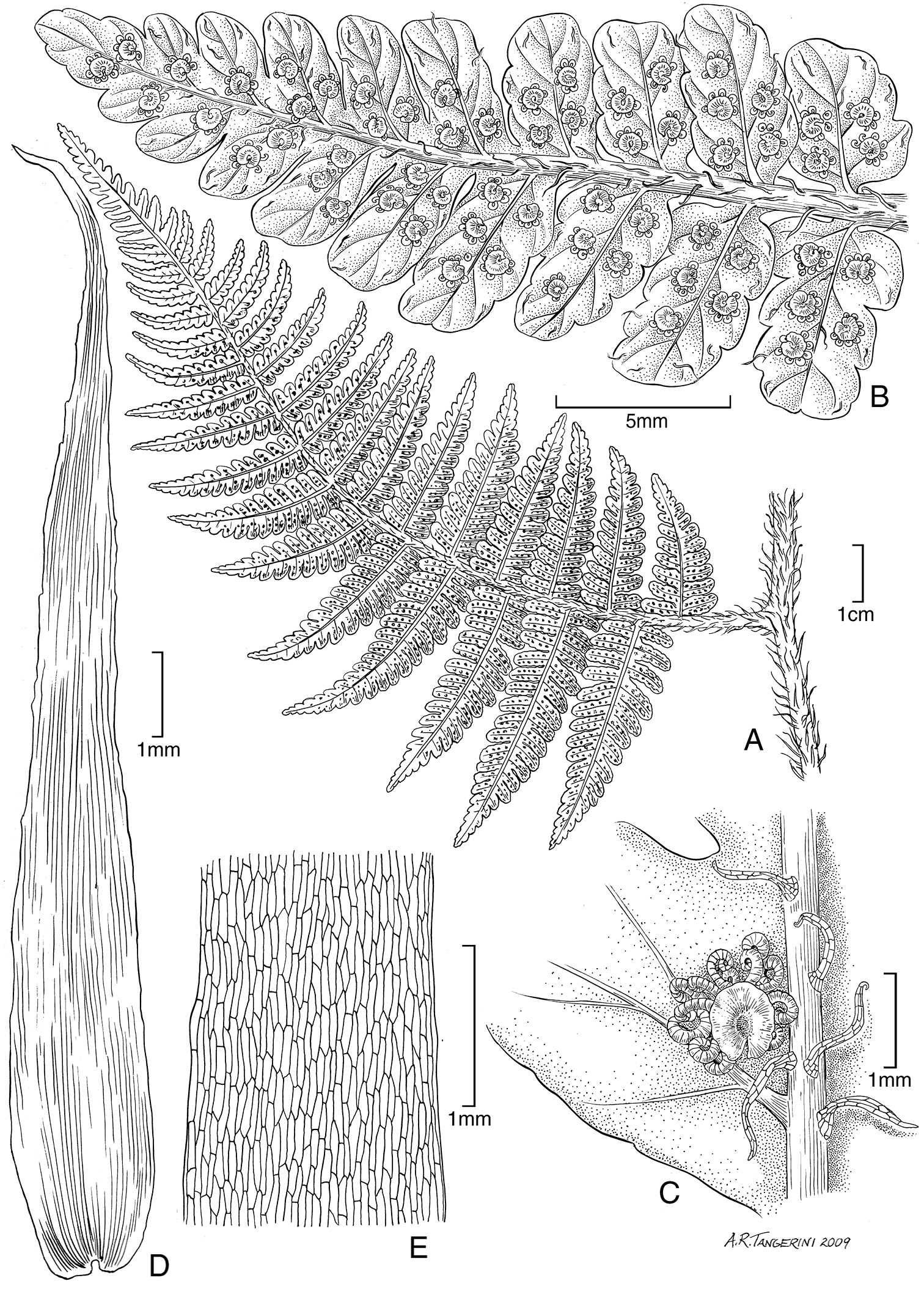 Dryopteris macropholis Lorence & W. L. Wagner. A pinna from near base of lamina, lower surface B lower surface of fertile pinnule showing sori C pinnule with sorus, sporangia, and scales D scale from stipe E part of stipe scale showing detail of cells. Drawn from the type collection (Wood 10489) and field images.